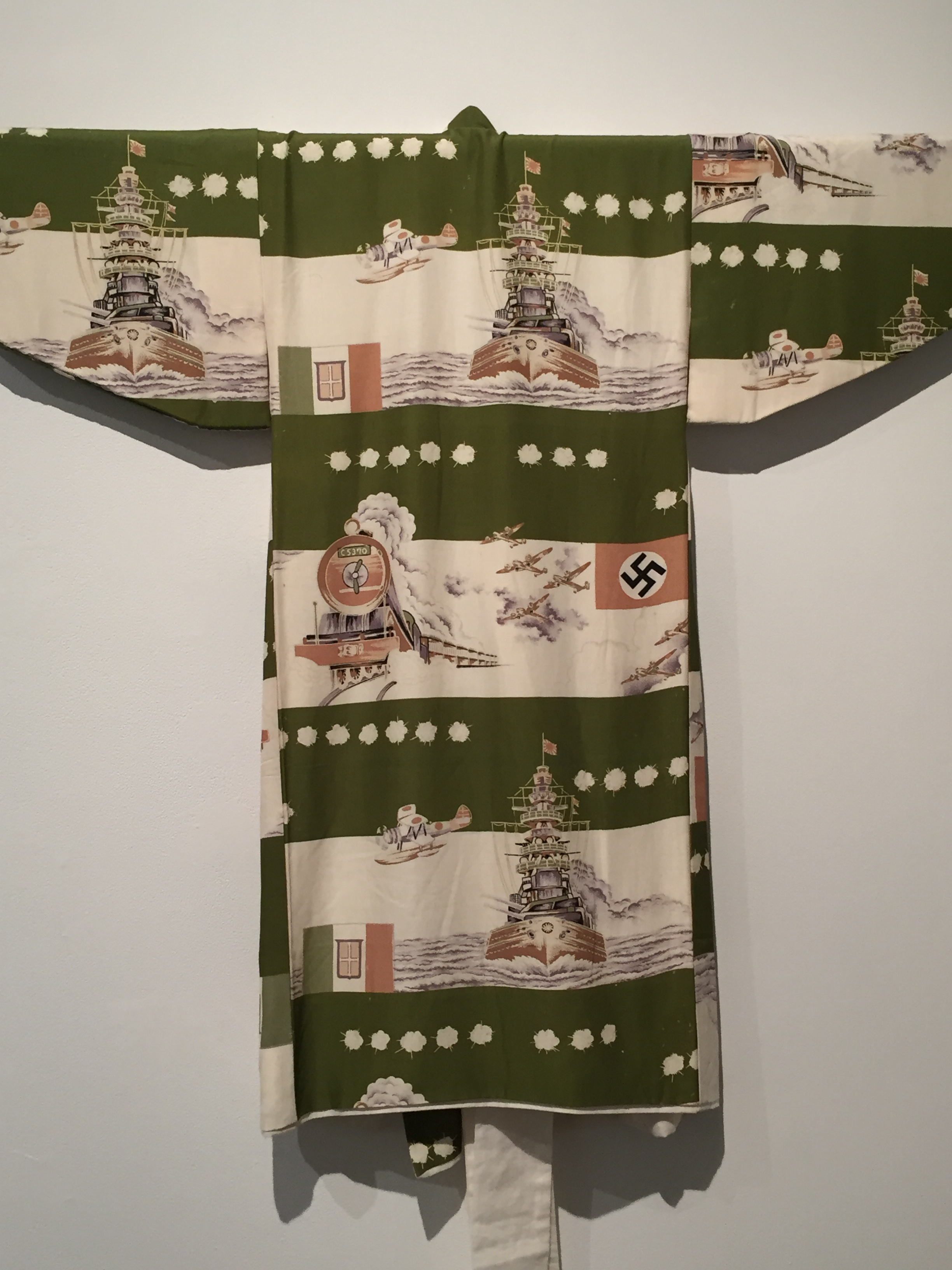 Japanese Propaganda Kimono - Axis, Boy's Kimono, c. 1940-41. Material: rayon; dimensions: 29h x 32w. Picture taken 2015-10-24 16.41.09. The imagery celebrates the Axis alliance between Japan, Germany and Italy, showing the Nazi swastika and the tri-color flag with shield of Fascist Italy.